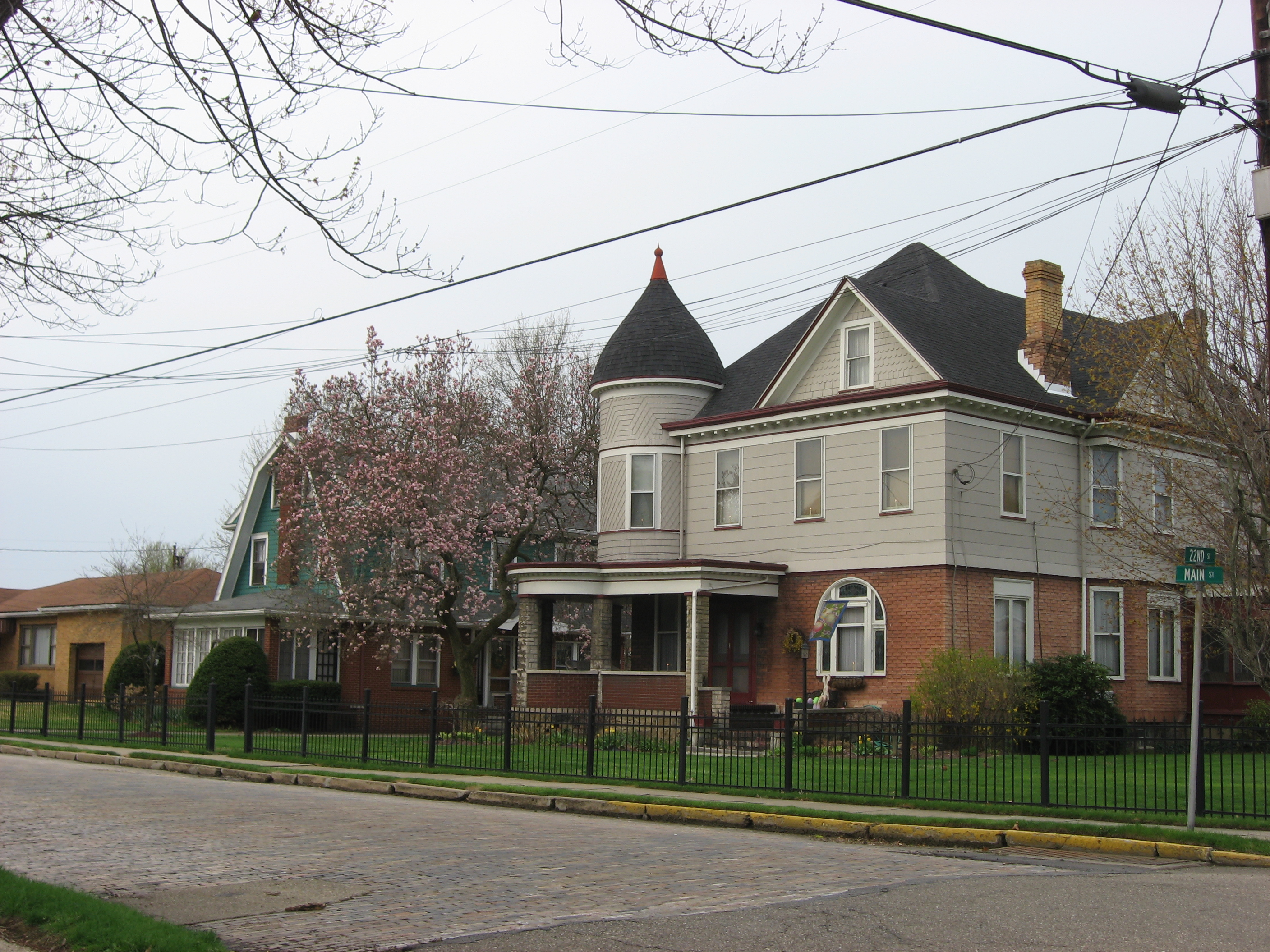 Houses on the southwestern corner of the intersection of Twenty-second and Main Streets in downtown Wellsburg, West Virginia, United States. The house on the right side of the picture, located at 2121 Main and built in 1880, is one of the few Queen Anne houses in the area. This block is part of the Wellsburg Historic District, a historic district that is listed on the National Register of Historic Places.